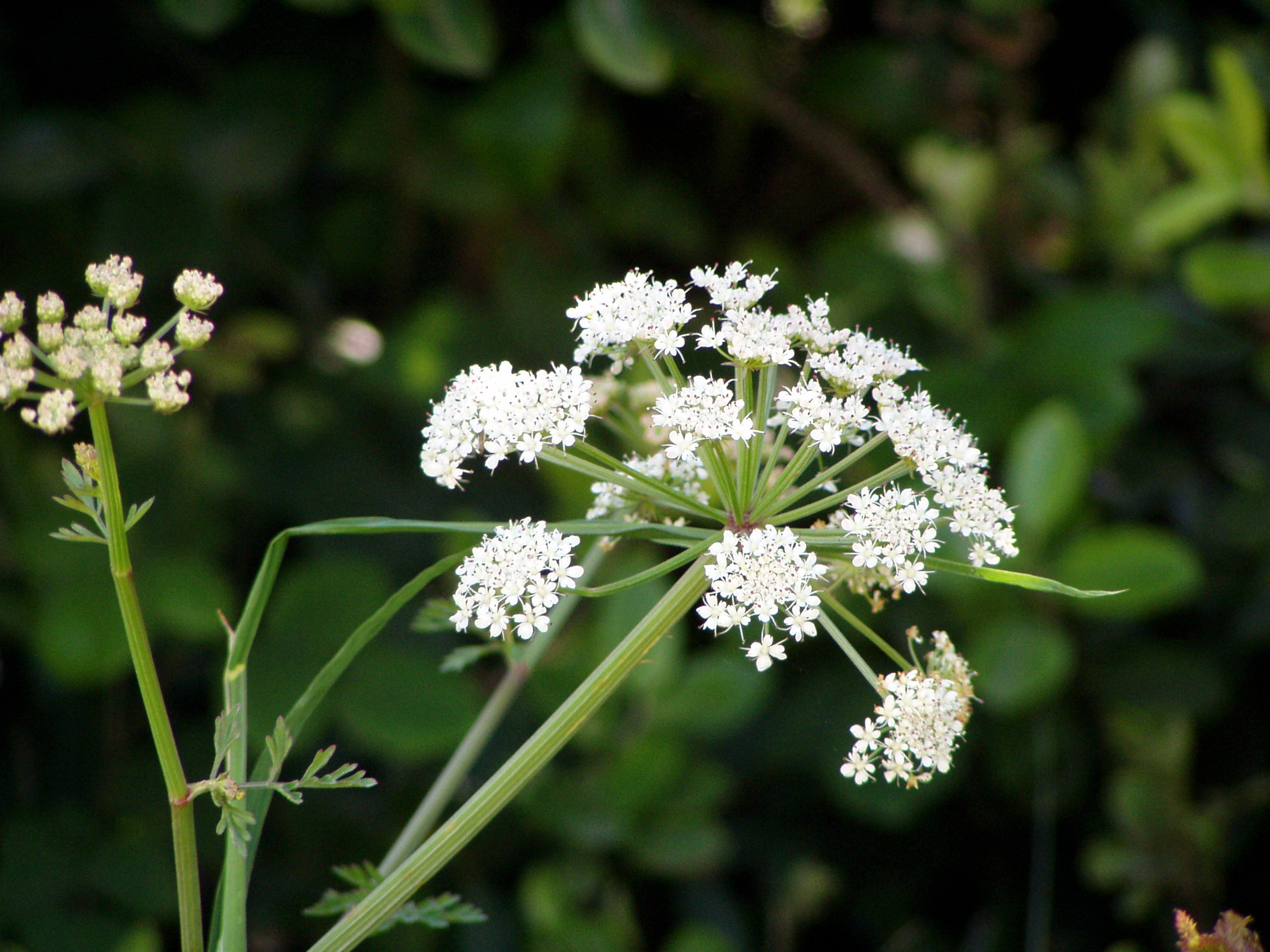 Eltrot